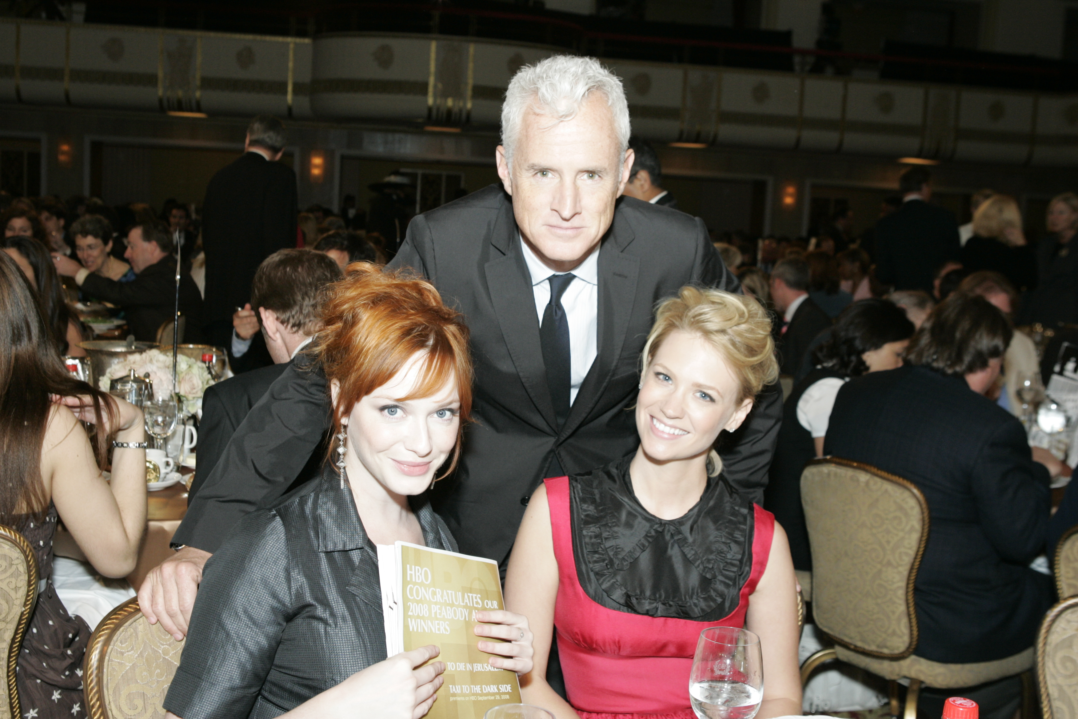 Christina Hendricks, John Slattery and January Jones 67th Annual Peabody Awards Luncheon Waldorf=Astoria Hotel New York, NY USA June 16, 2008